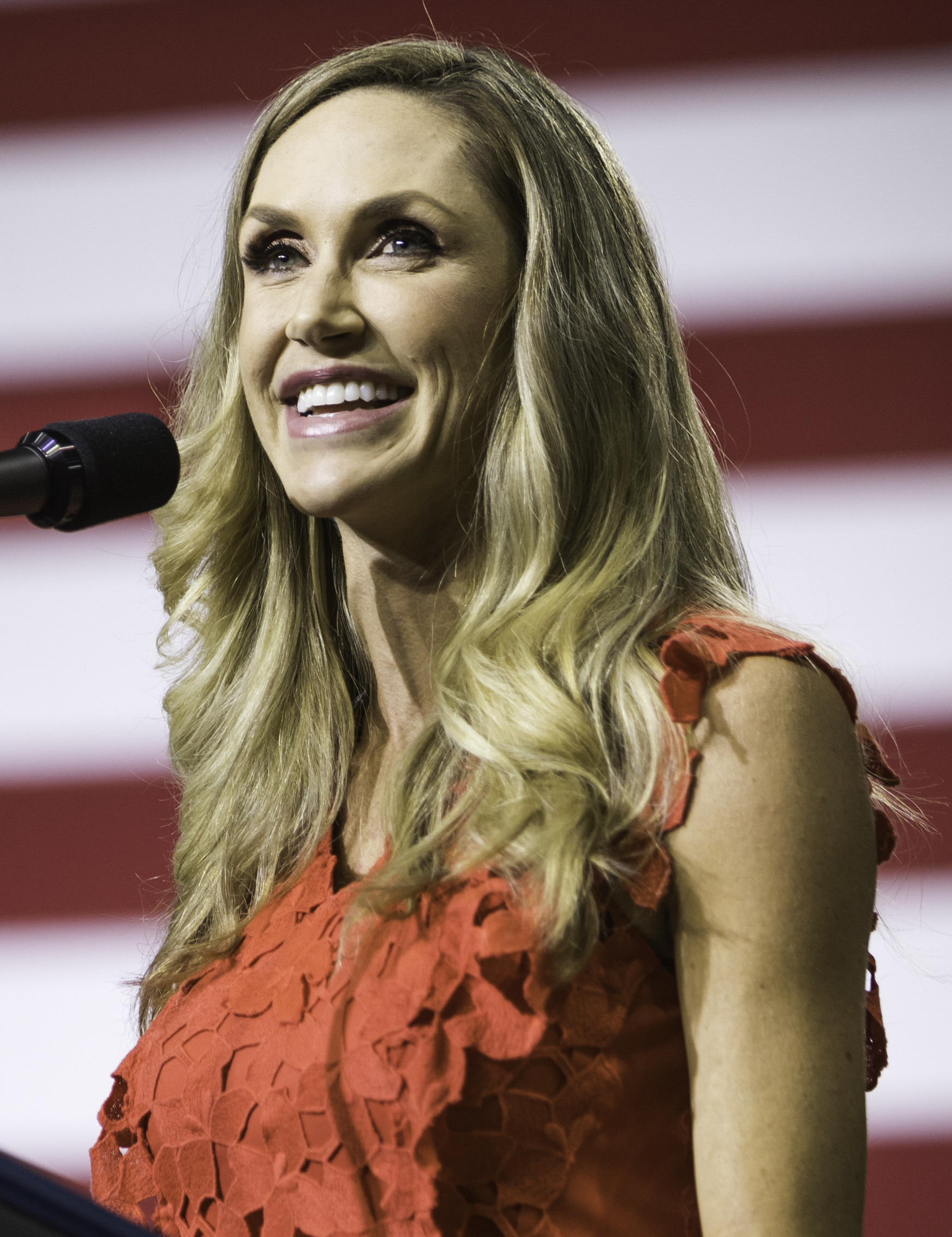 Lara Trump 06-20-2018 Duluth, MN